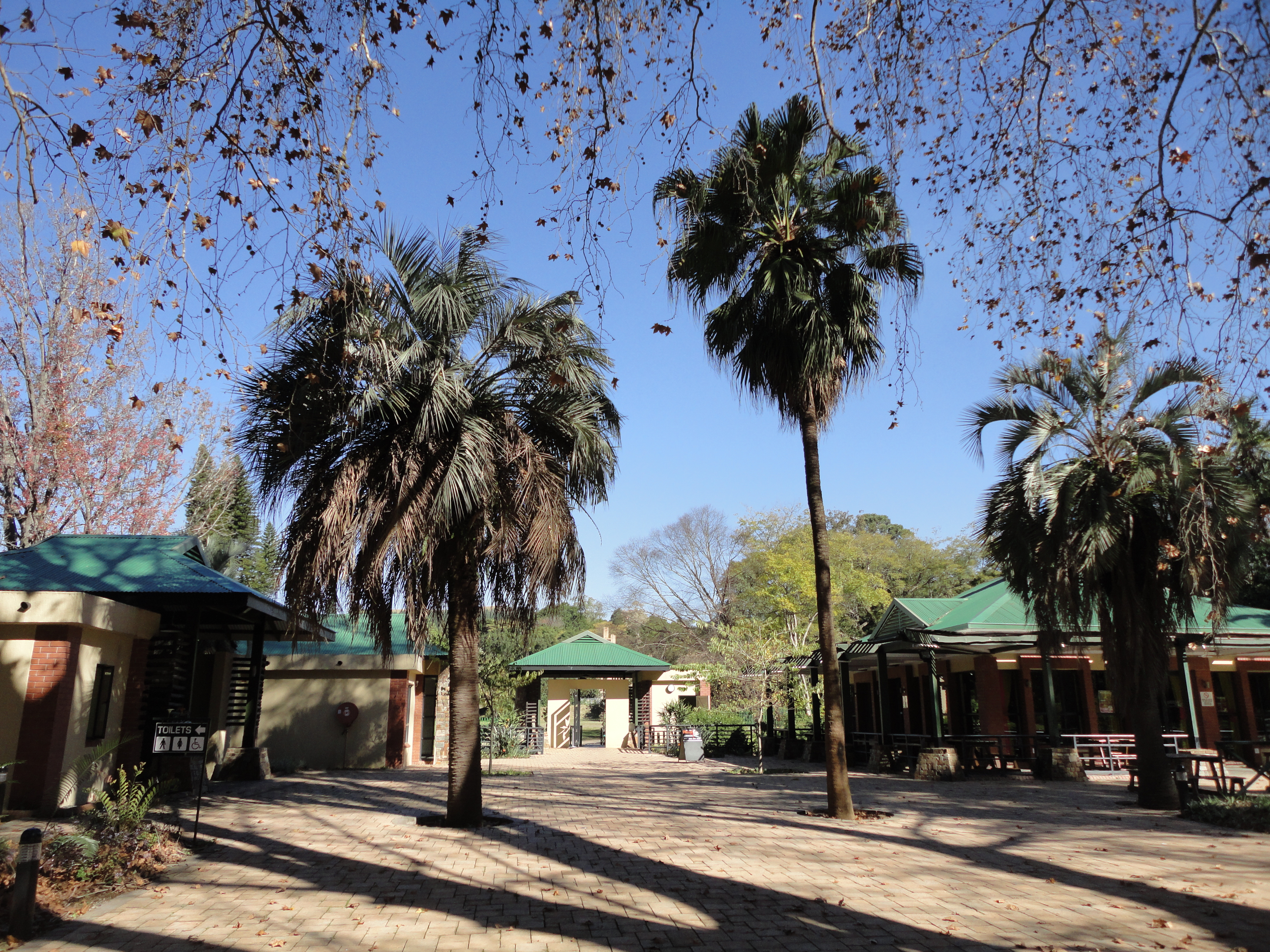 Exit gate, KwaZulu-Natal National Botanical Garden, Pietermaritzburg